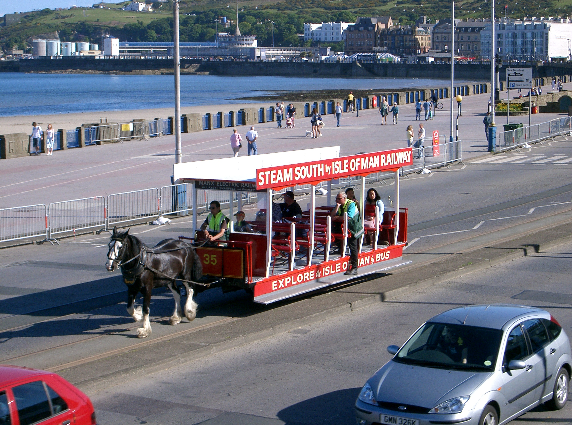 A horse tram in Douglas, Isle Of Man. The man standing on the stepboard is the conductor, who collects the fares. Photographed by SP Smiler